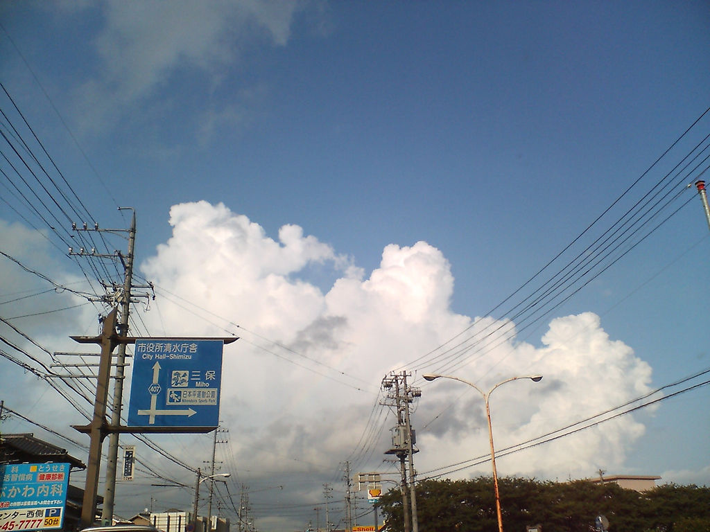 Cumulonimbus cloud of Yūdachi(evening thunderstorm). Shimizu-ku, Shizuoka City, Shizuoka prefecture, Japan.